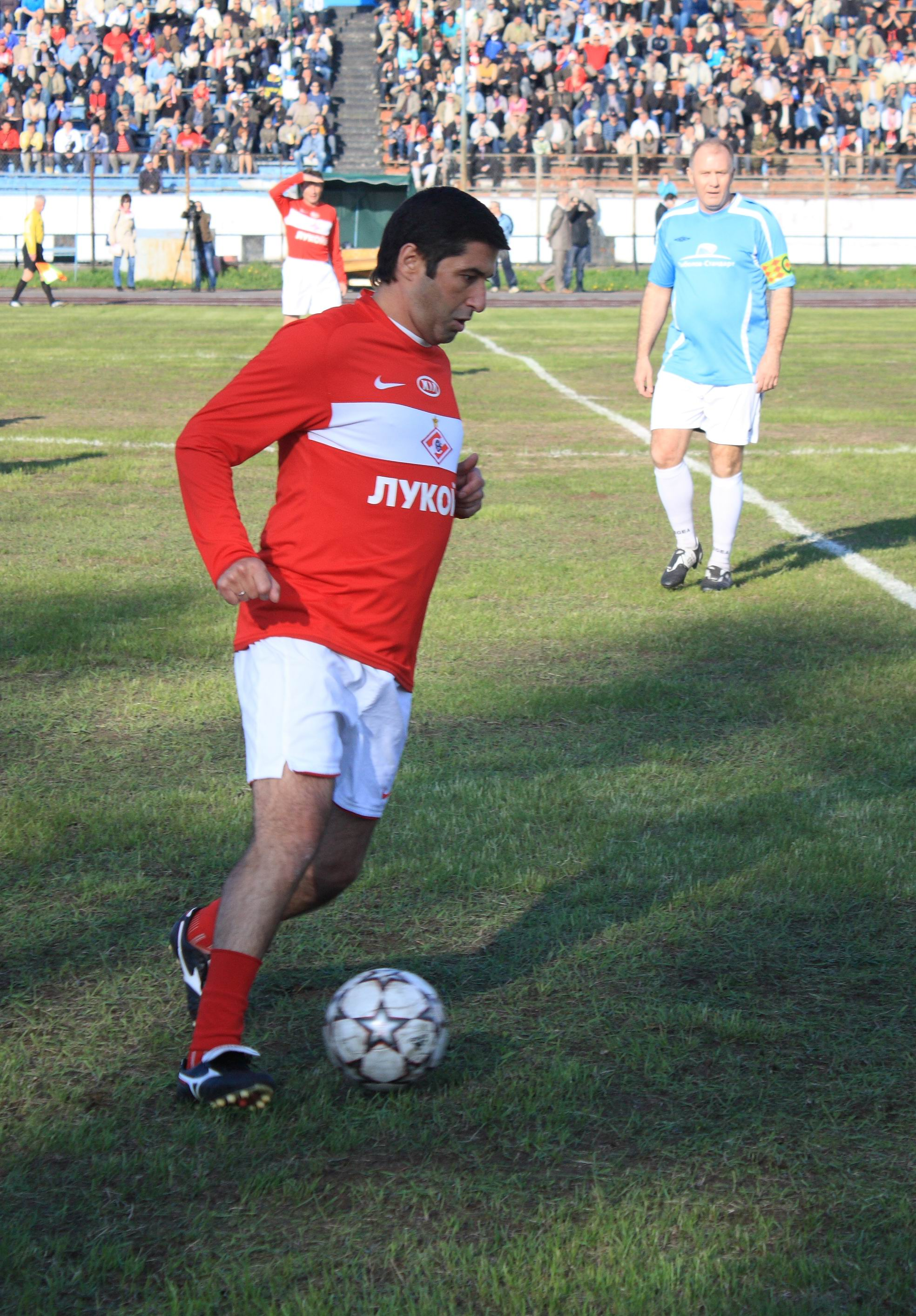 Ramiz Mikhmanovich Mamedov (Russian: Рамиз Михманович Мамедов) (born August 21, 1972 in Moscow) is a retired Russian football player with Azerbaijanians roots.